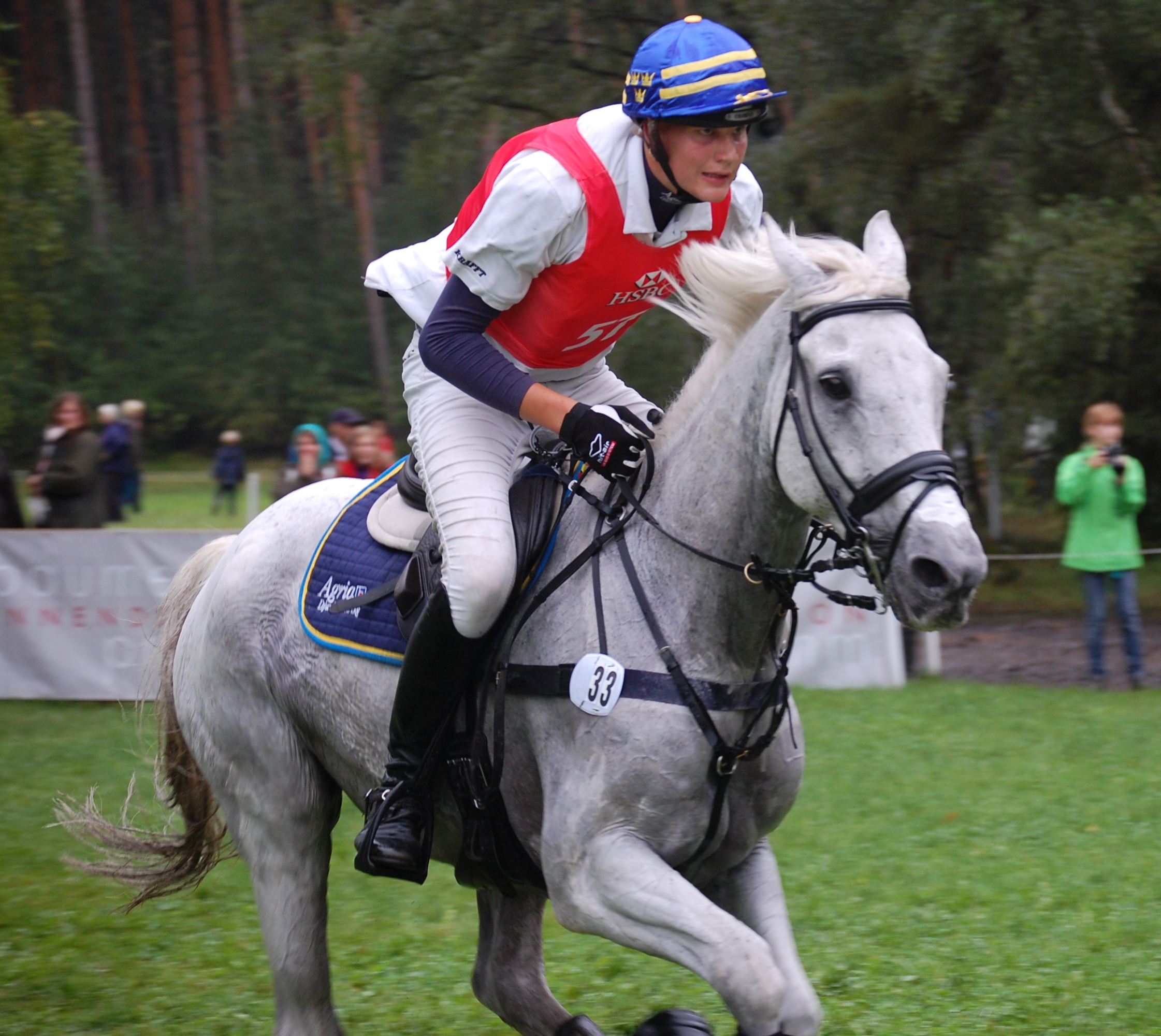 Christoffer Forsberg and Grafman, cross-country phase, 2011 European Eventing Championship, Luhmühlen